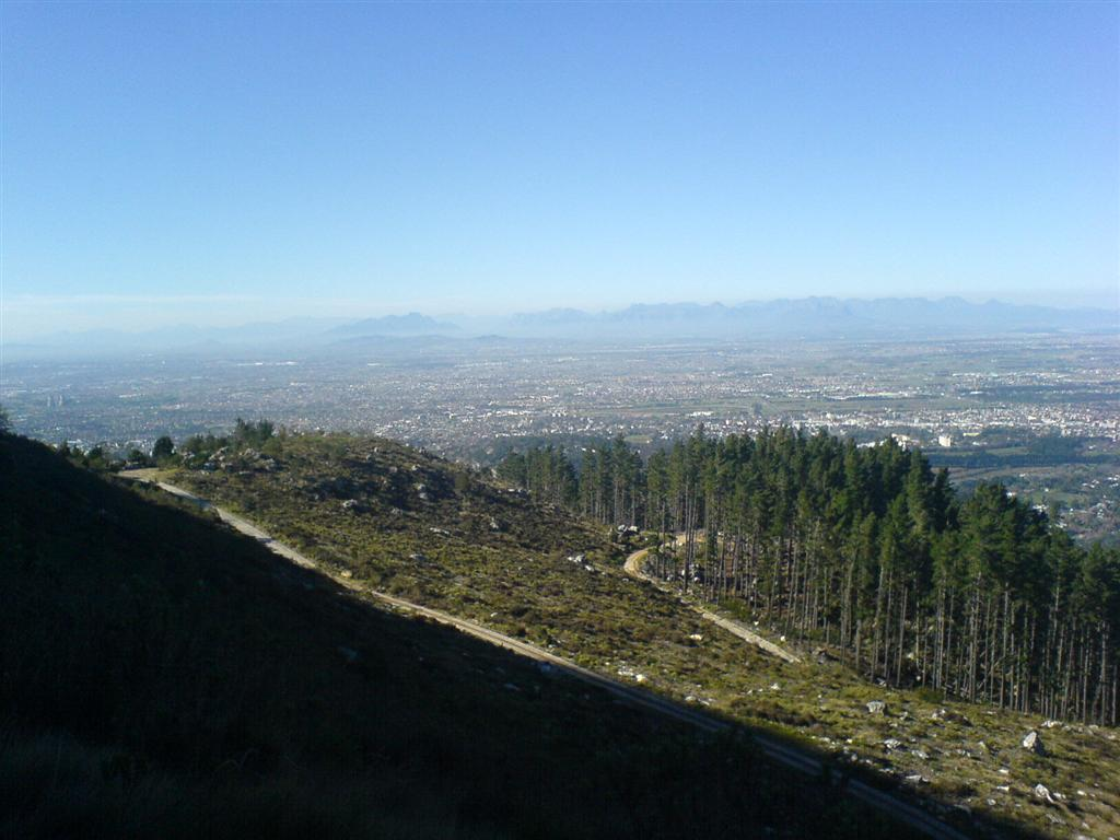 Picture taken by myself of the famous Bridle Path, leading up the back of Table Mountain from Constantia Nek. The path has the most gradual incline when hiking to Maclear's Beacon, and so is favoured by beginner hiker. I would like to add the picture to the Wiki on 'Table Mountain'.